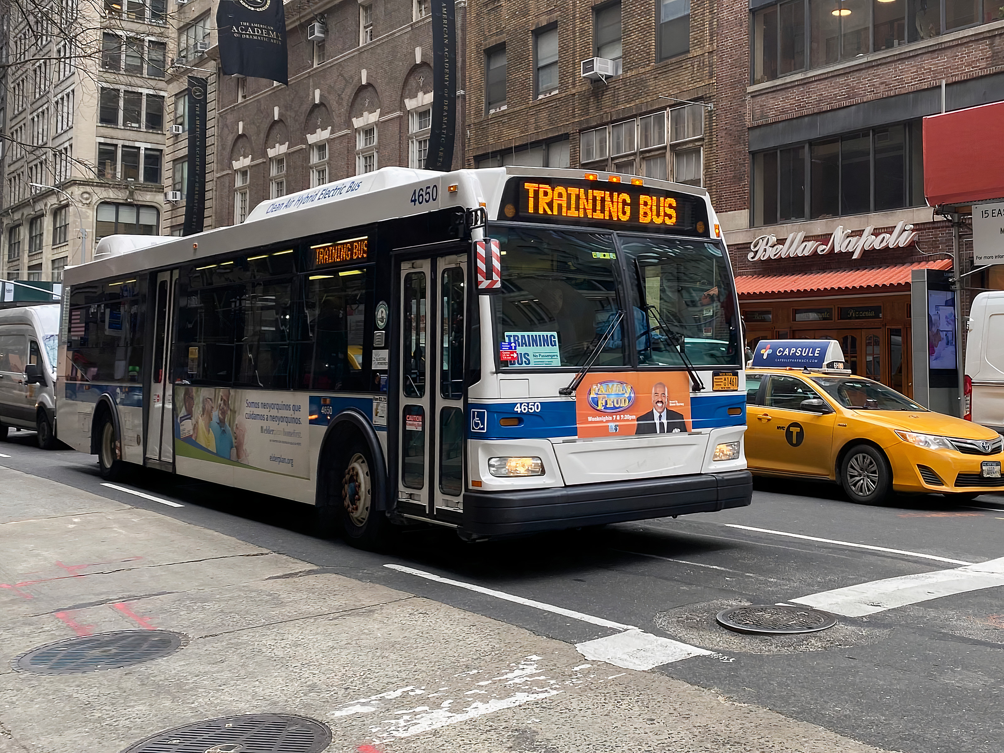 An MTA Orion VII NG training bus spotted in the borough of manhattan.